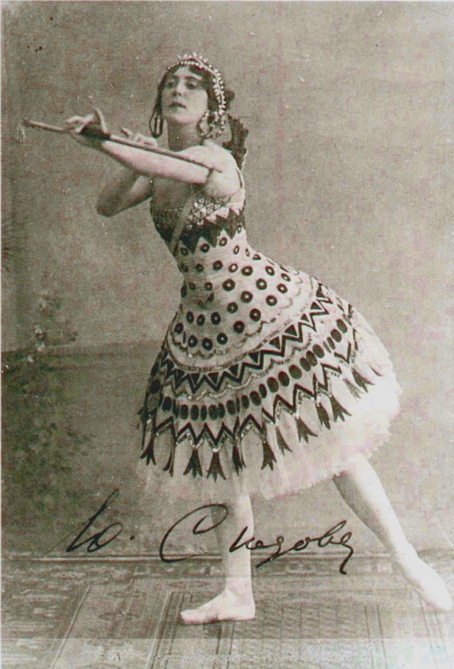 Photo of the ballerina Julia Nikolaevna Sedova (1880-1969) costumed for the role of the Princess Aspicia in the choreographer Marius Petipa (1811-1910) and composer Cesare Pugni's (1802-1870) 1862 ballet The Pharaoh's Daughter.